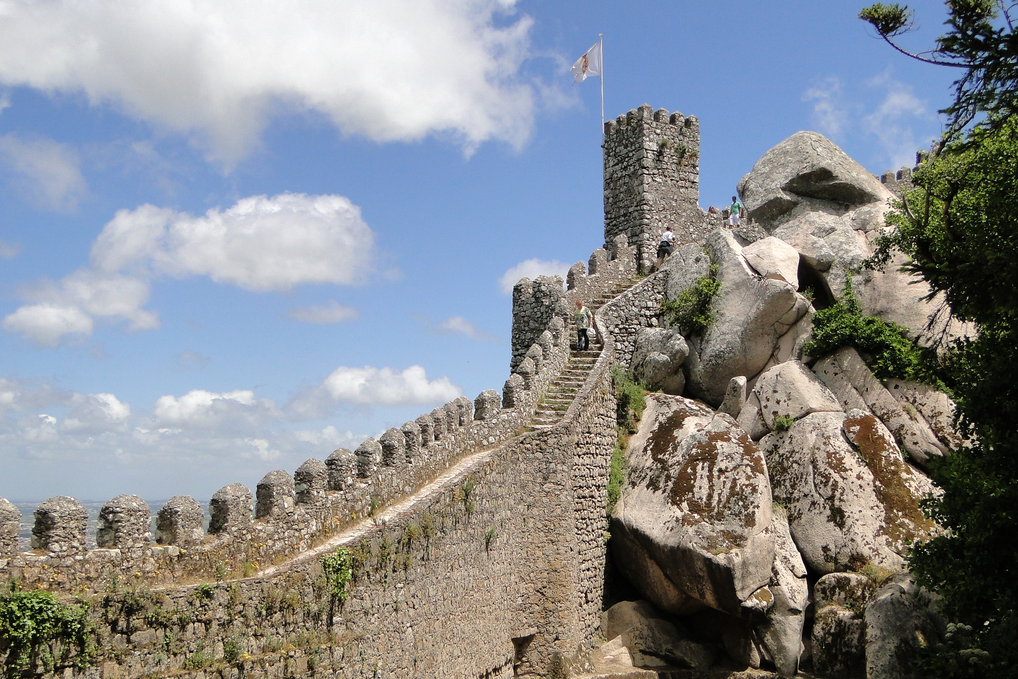 Battlements of Moorish Castle - Sintra - Portugal